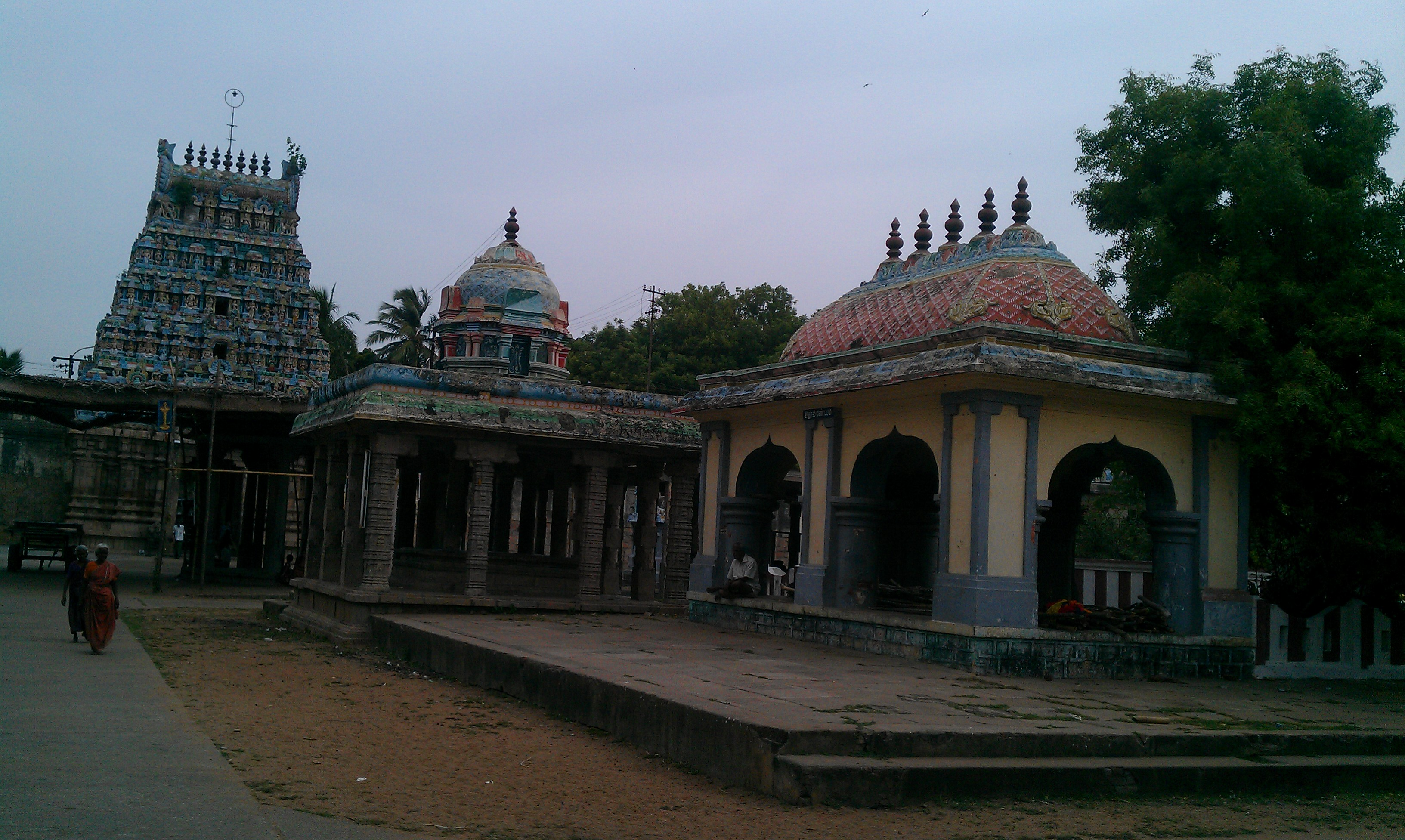 Tiruvidaimaruthur1